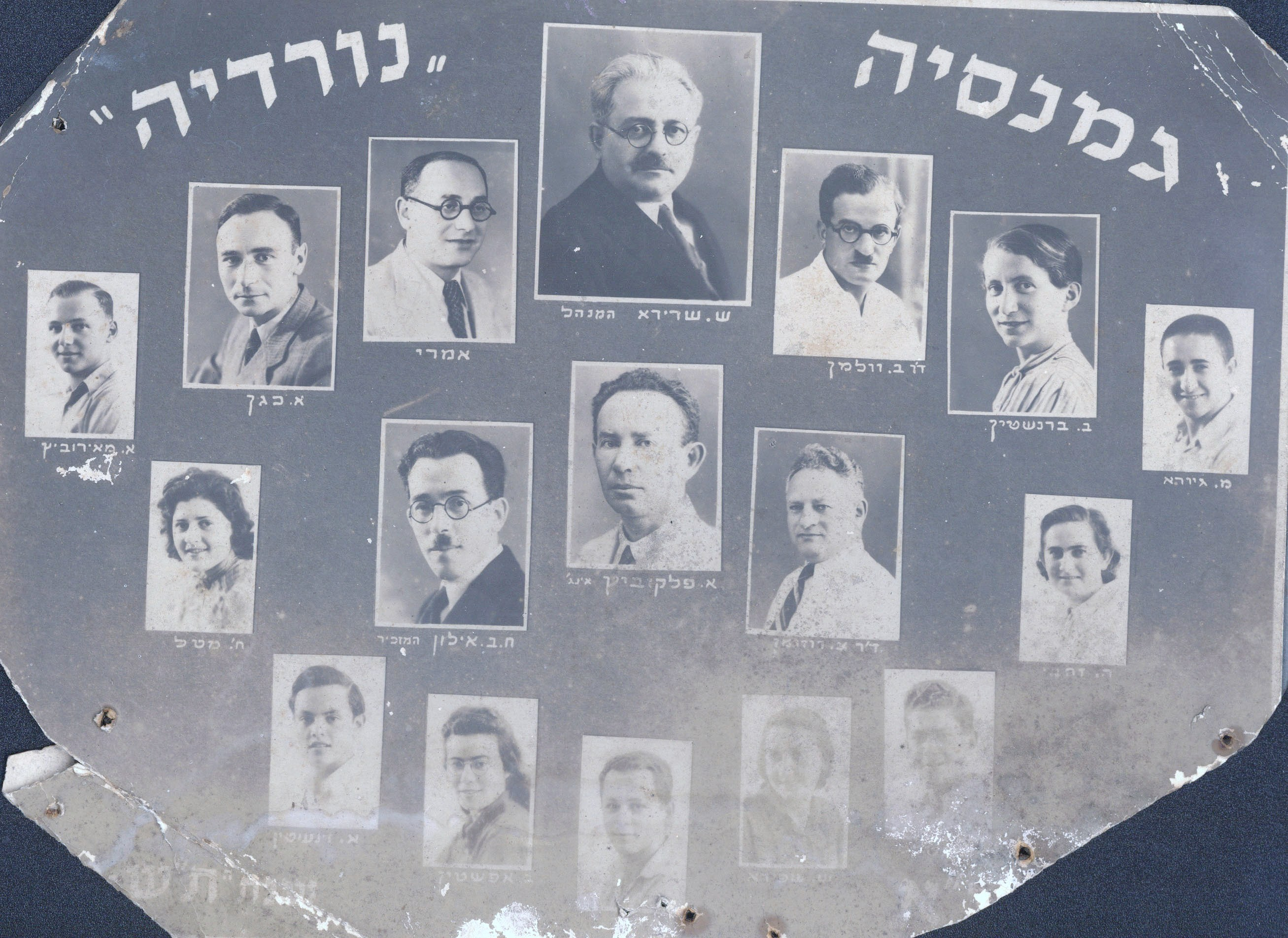 Norida high school teachers 1941-1942